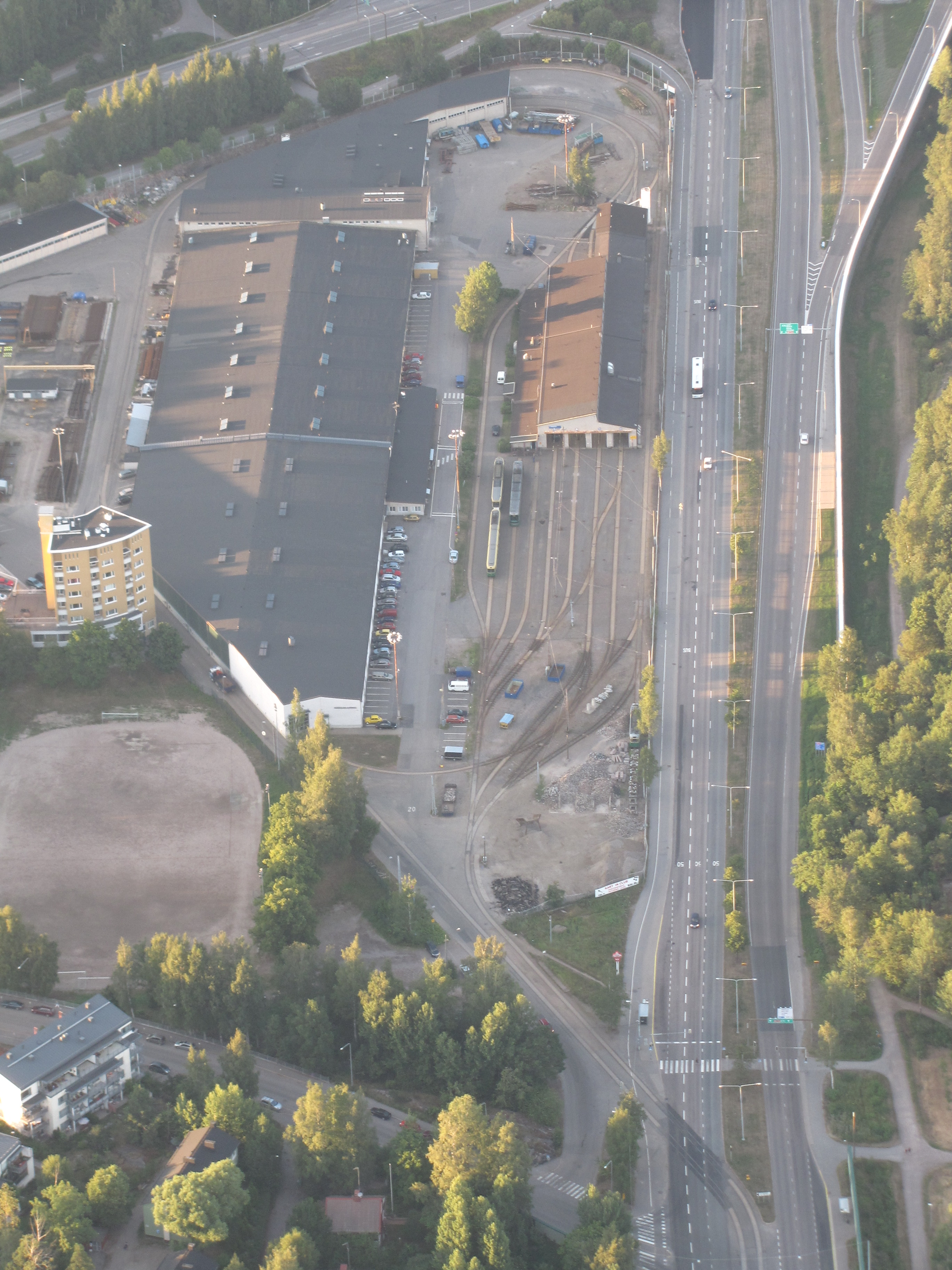 Koskela tram depot photographed from a hot air balloon.